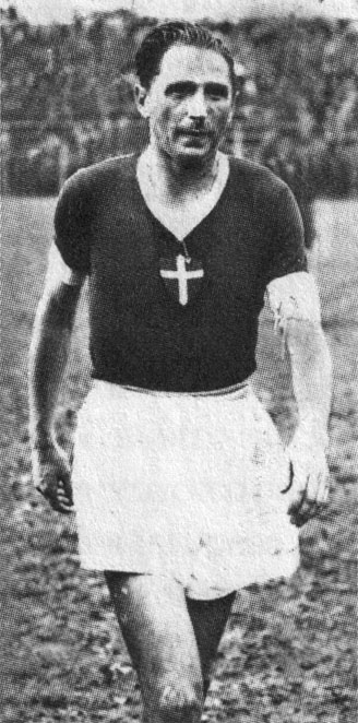 Italian footballer Silvio Piola with A.C. Novara between 1940s and 1950s.